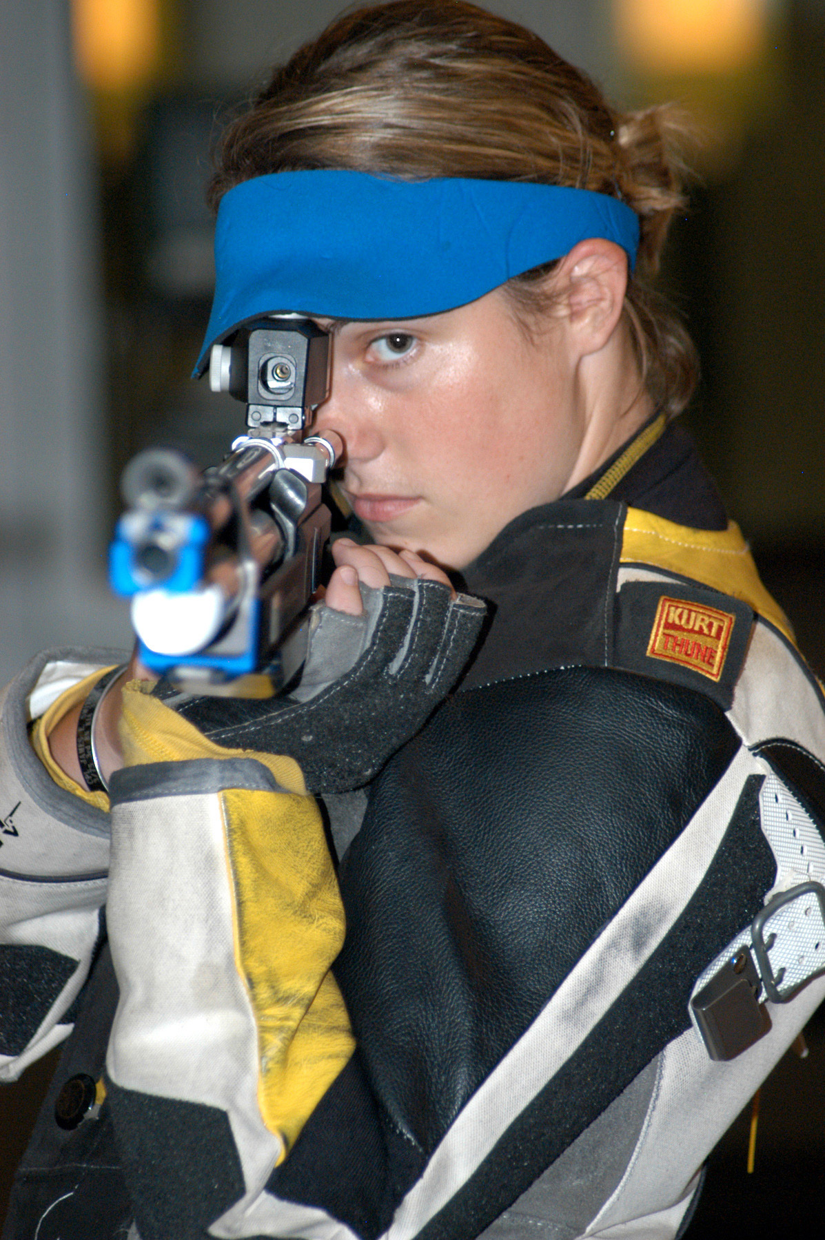 Hattie Johnson. Original caption: Spc. Hattie Johnson, a member of the U.S. Army Marksmanship Unit from Athol, Idaho, will compete Aug. 14 in 10-meter air rifle shooting in the Summer Olympic Games at Athens, Greece. Tim Hipps